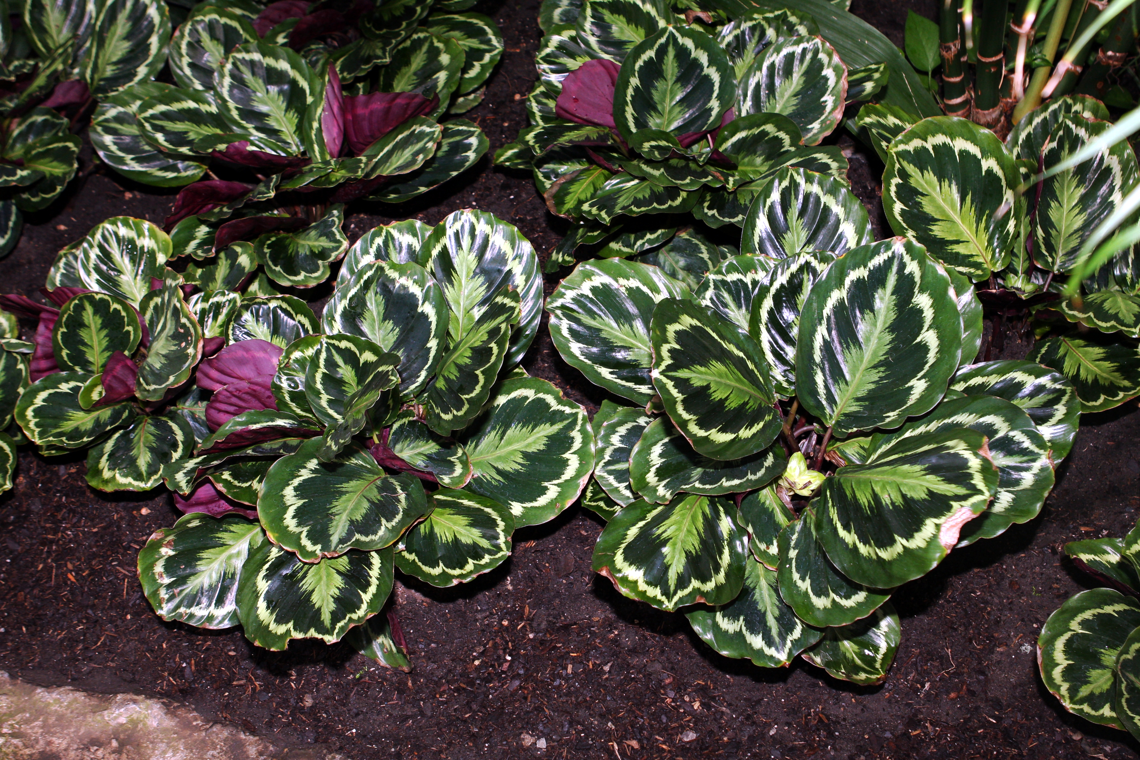 Calathea roseopicta